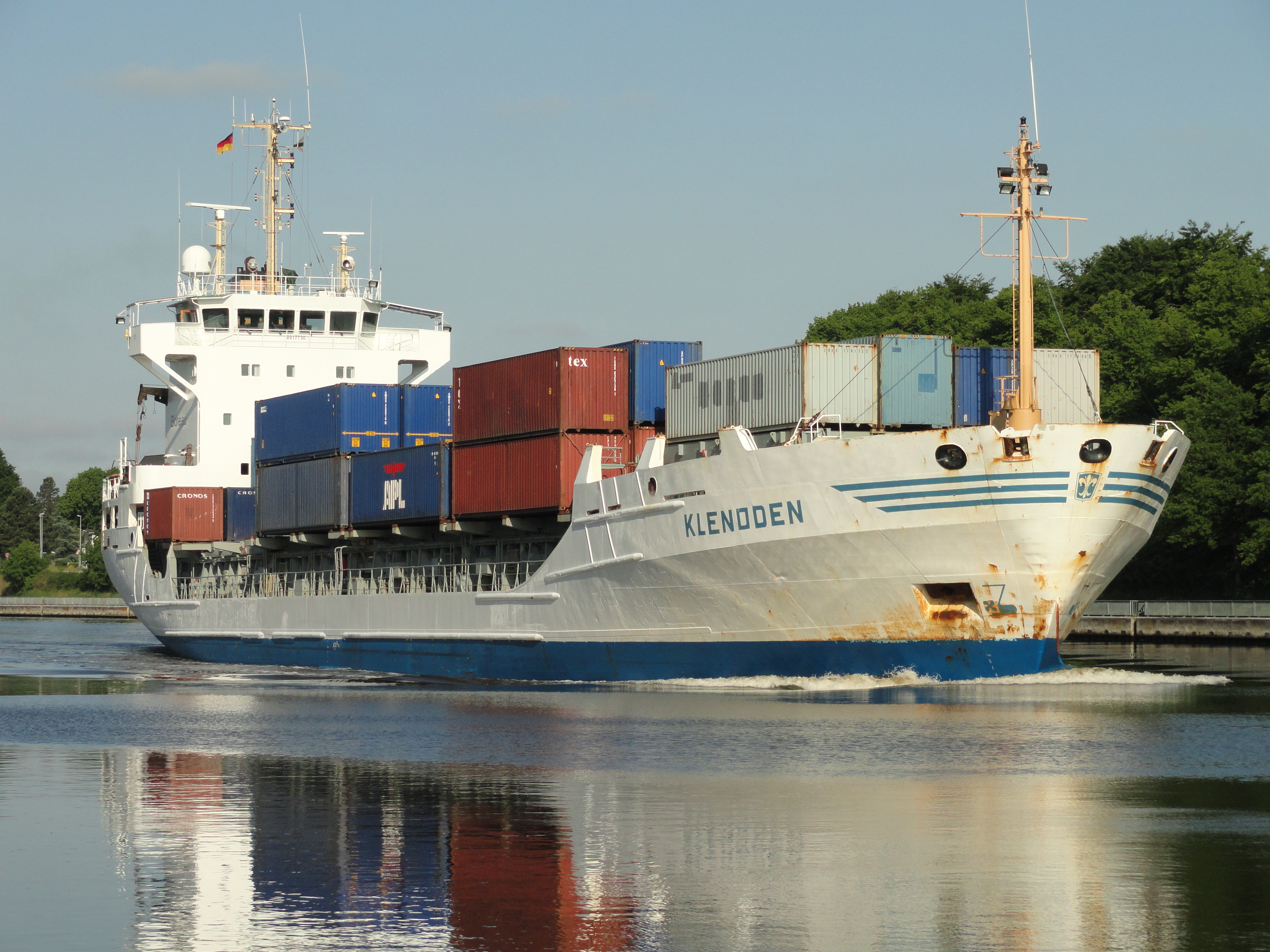 Photographed near Rendsburg, Germany.